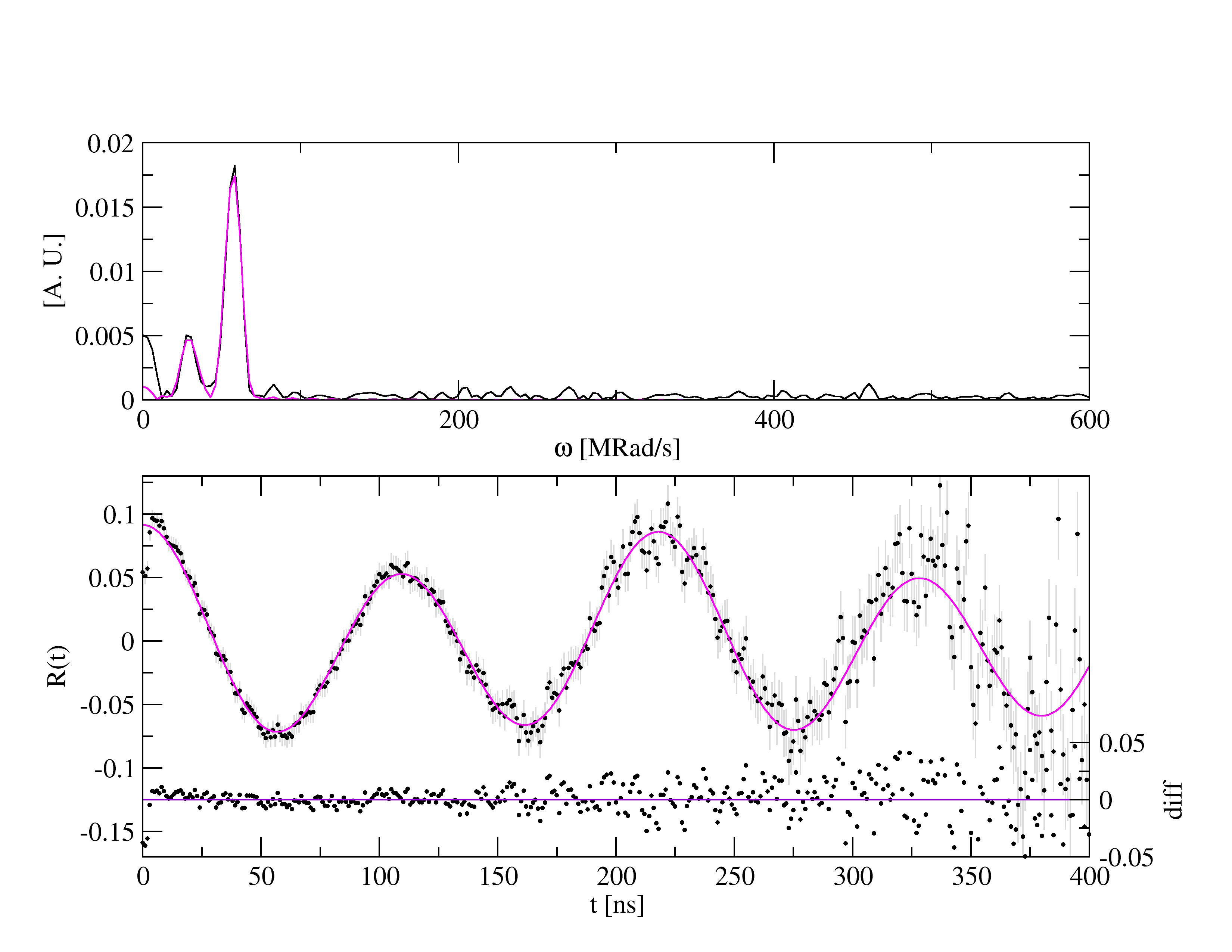 PAC-Spectroscopy: PAC-spectrum of single crystal ZnO.